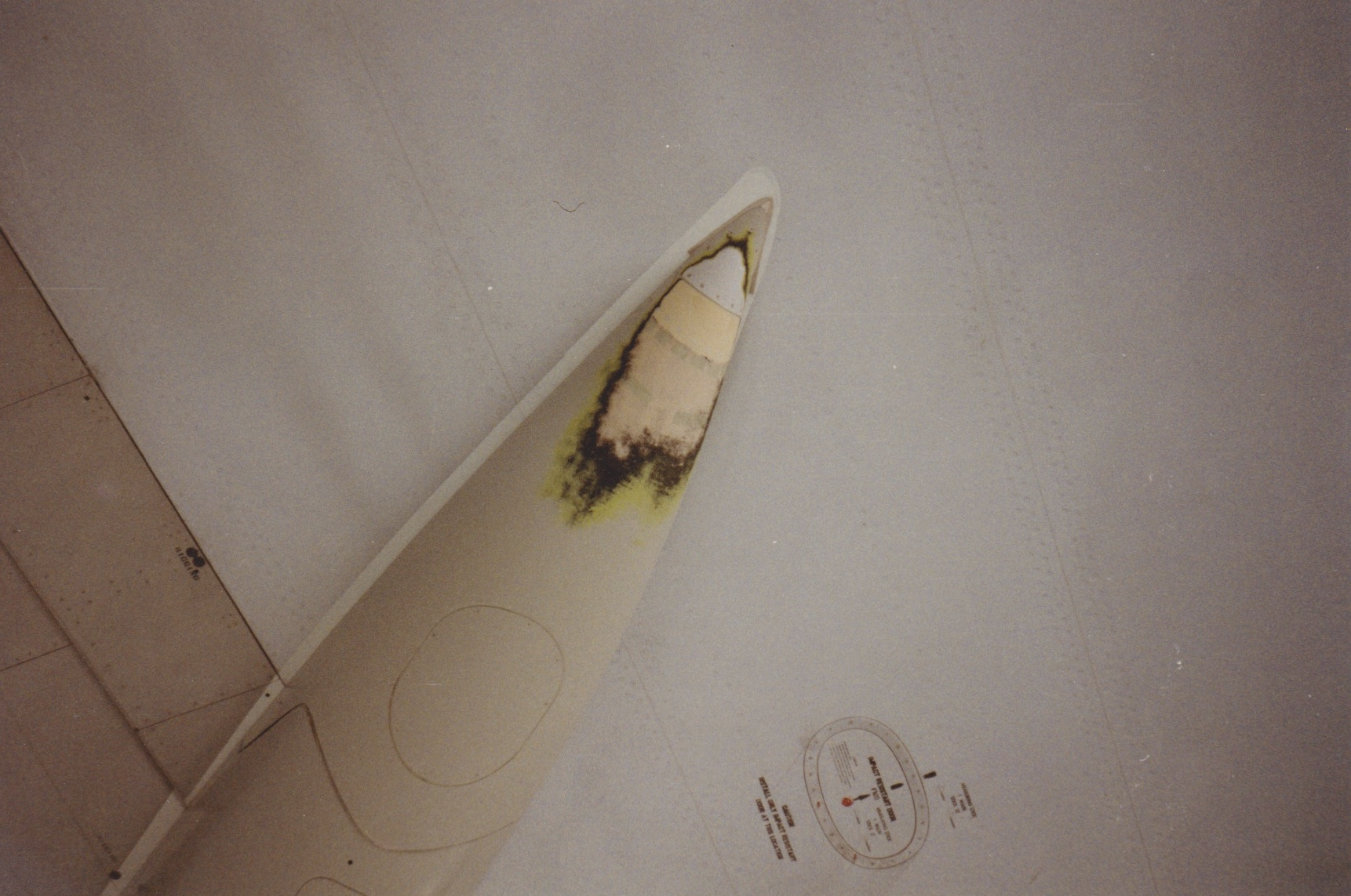 Damage caused by Ash cloud on the flight of KL 867 (PH-BFC from AMS - ANC). Taken at Anchorage Airport in December 1989